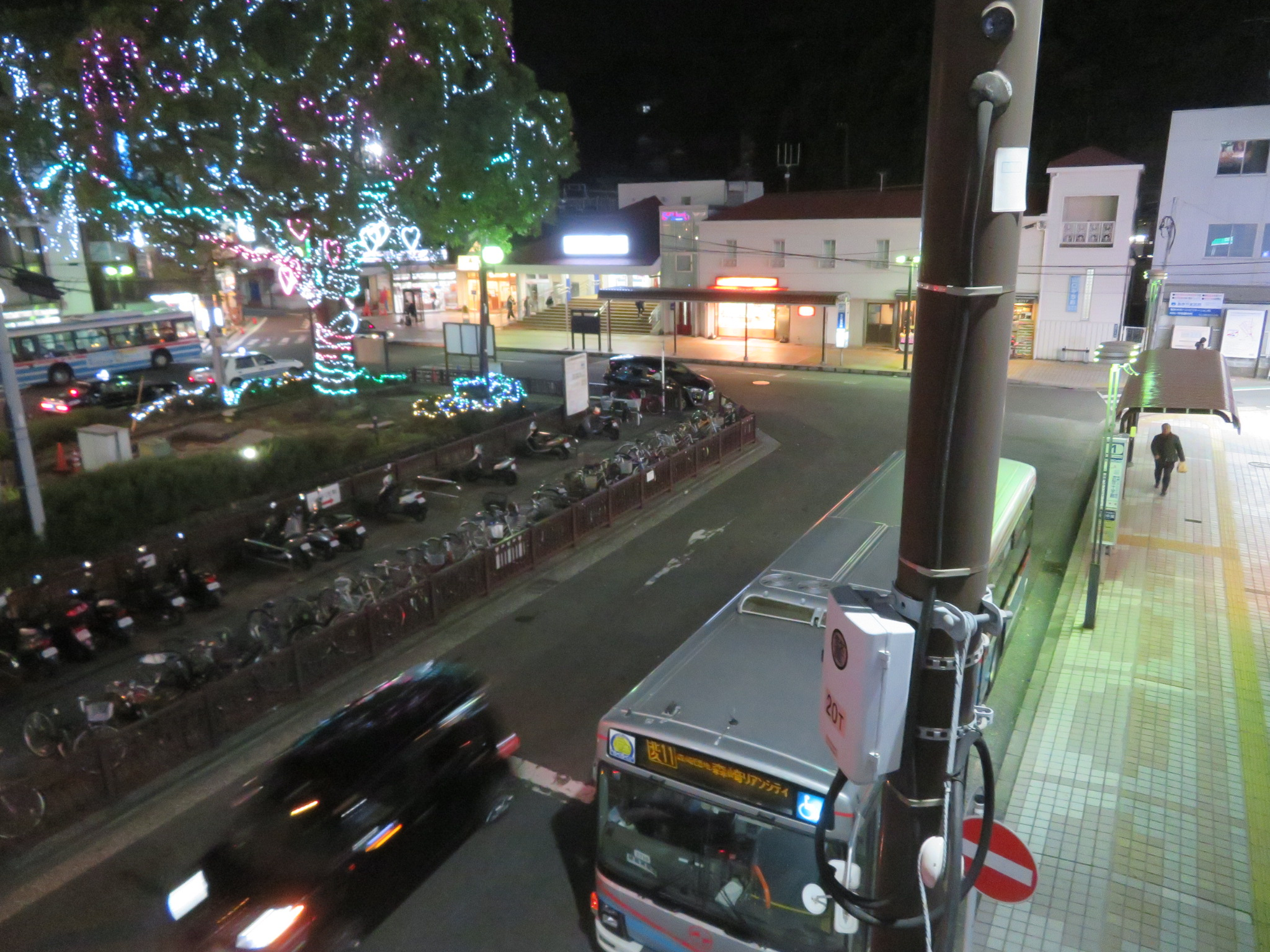 KitaKurihma bus stop